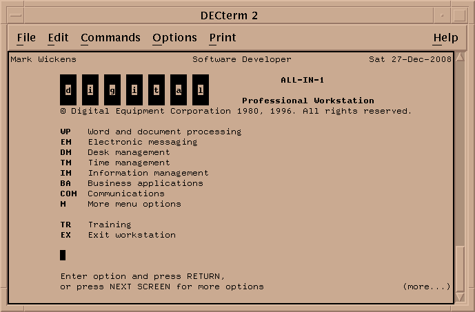 Digital Equipment Corporation ALLIN1 Title Page Example